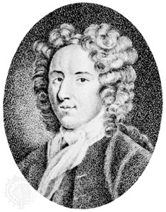 (PD by age) FYI this has an Encyclopedia Britannica watermark in the lower left corner.